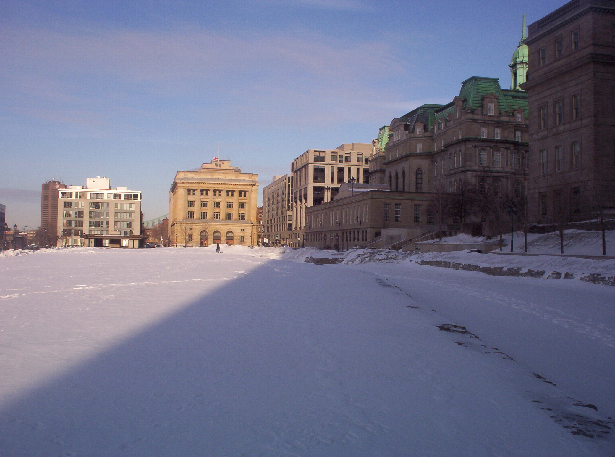 Summary: Champ de Mars In Montréal, Québec Author: Colocho